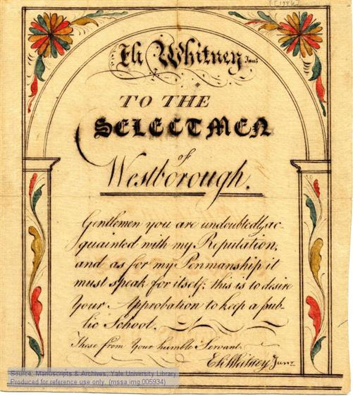 Petition by Eli Whitney to the Selectmen of Westborough, Massachusetts, showing a sample of his penmanship. Westborough native Whitney went on to be a highly successful inventor.